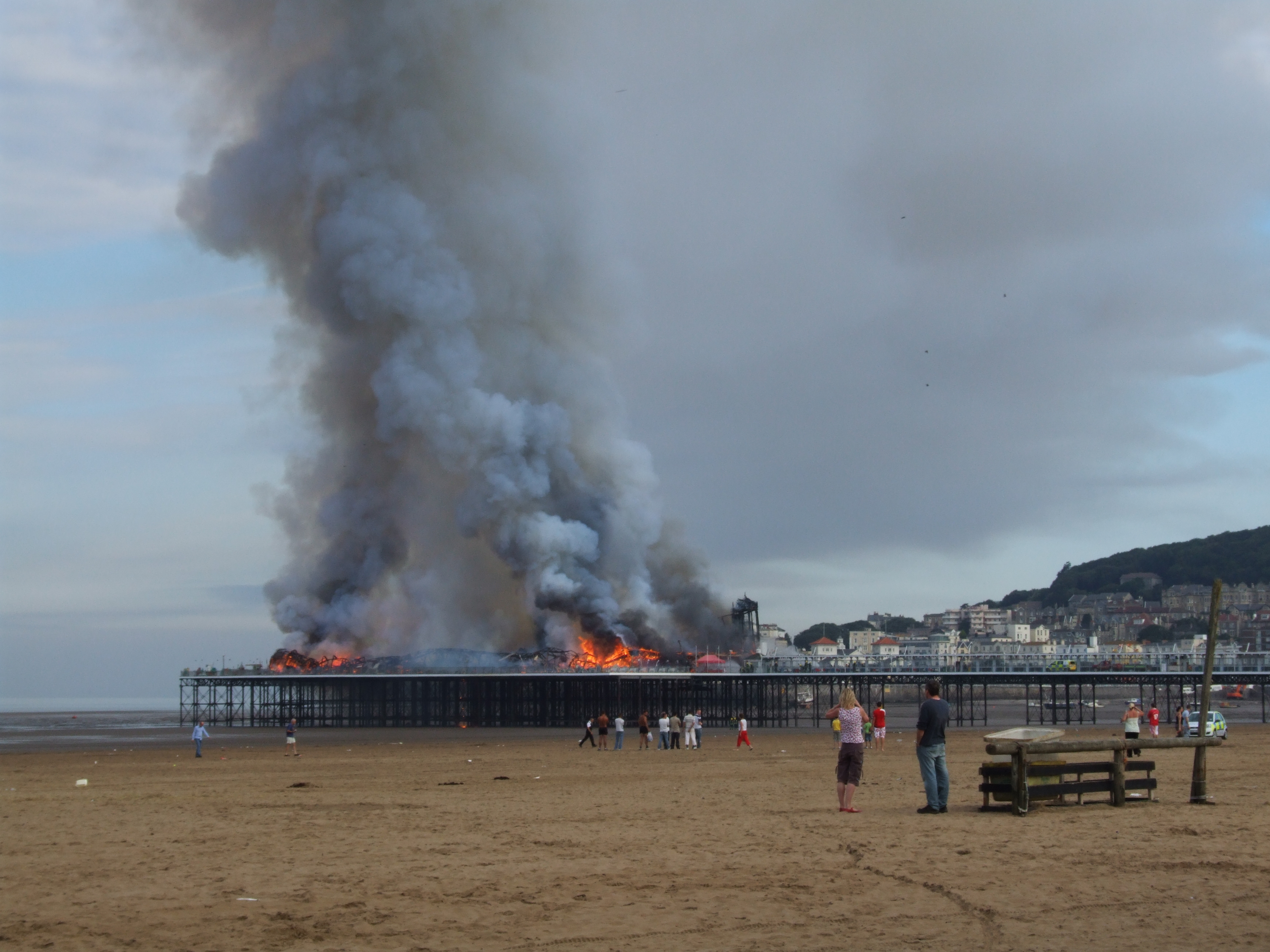 A picture of the fire at Weston-super-Mare Grand Pier on 28 July 2008, taken at 08:26 BST (07:26 UTC).